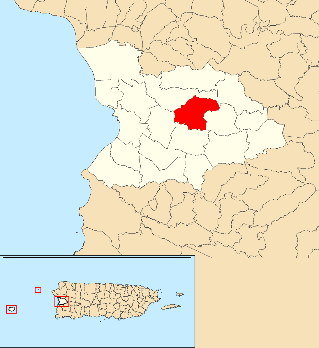 Quemado, Mayagüez, Puerto Rico locator map